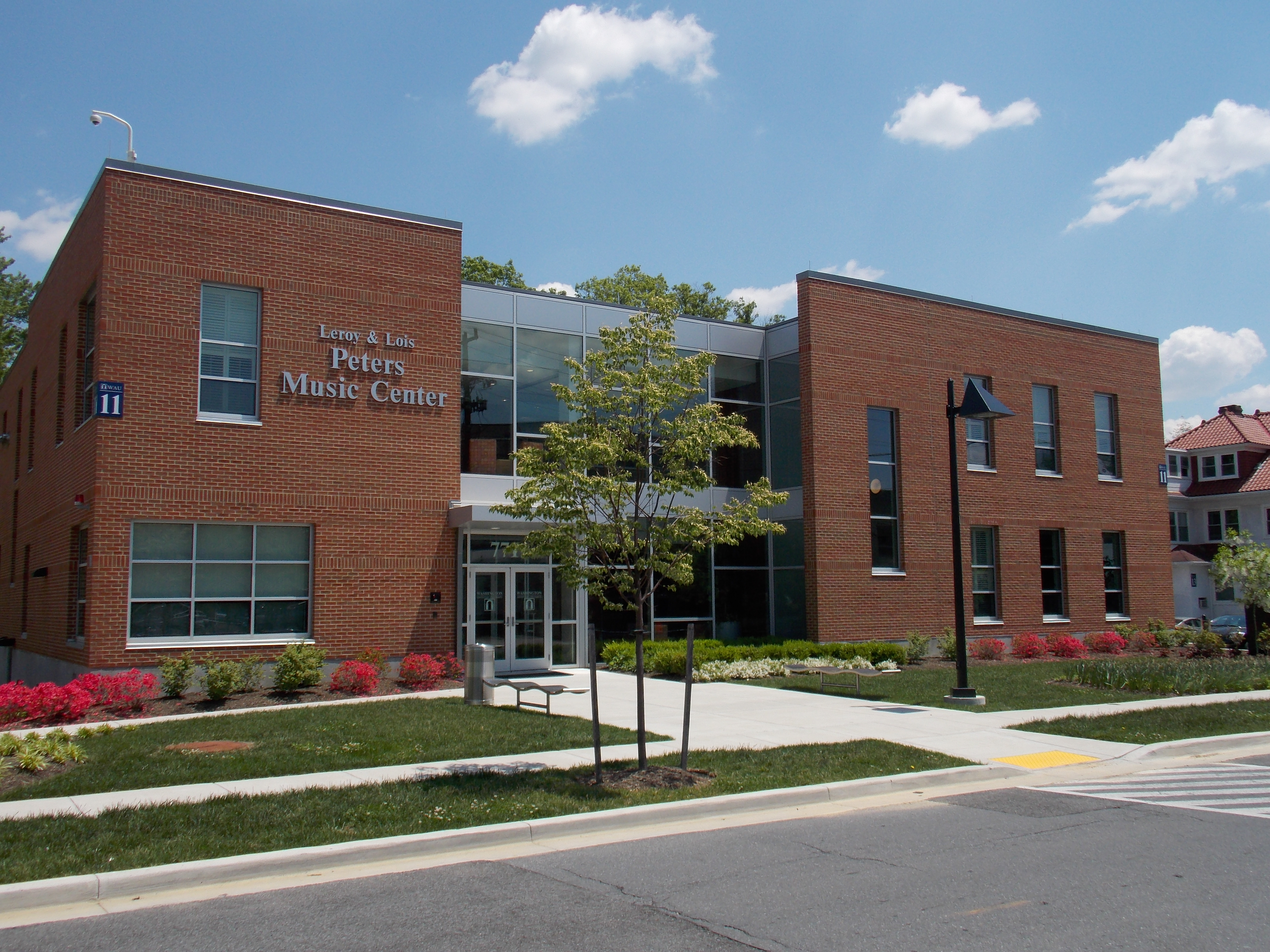 Peters Music Center at Washington Adventist University in Takoma Park, Maryland, USA.